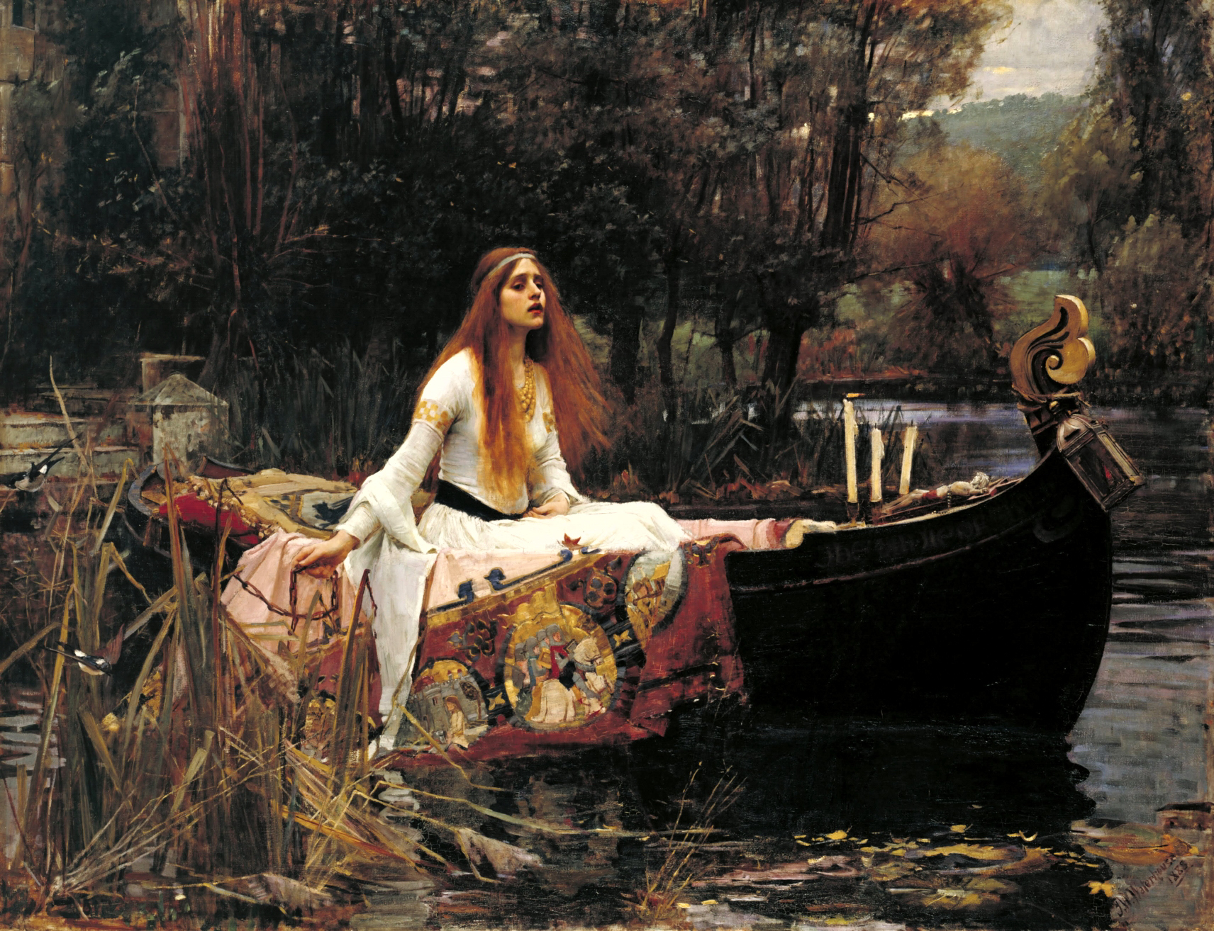 This is a derivative work based on the Google Art Project image here (see Gallery below). The file has been reduced in size and the image lightened in LCH space, a colour space designed to approximate the visual experience. The purpose was to lighten the image without affecting the hue and saturation of its colours. The tool used was the AutoContrast edit in LCH space in Nikon's Capture X2 image processing software.